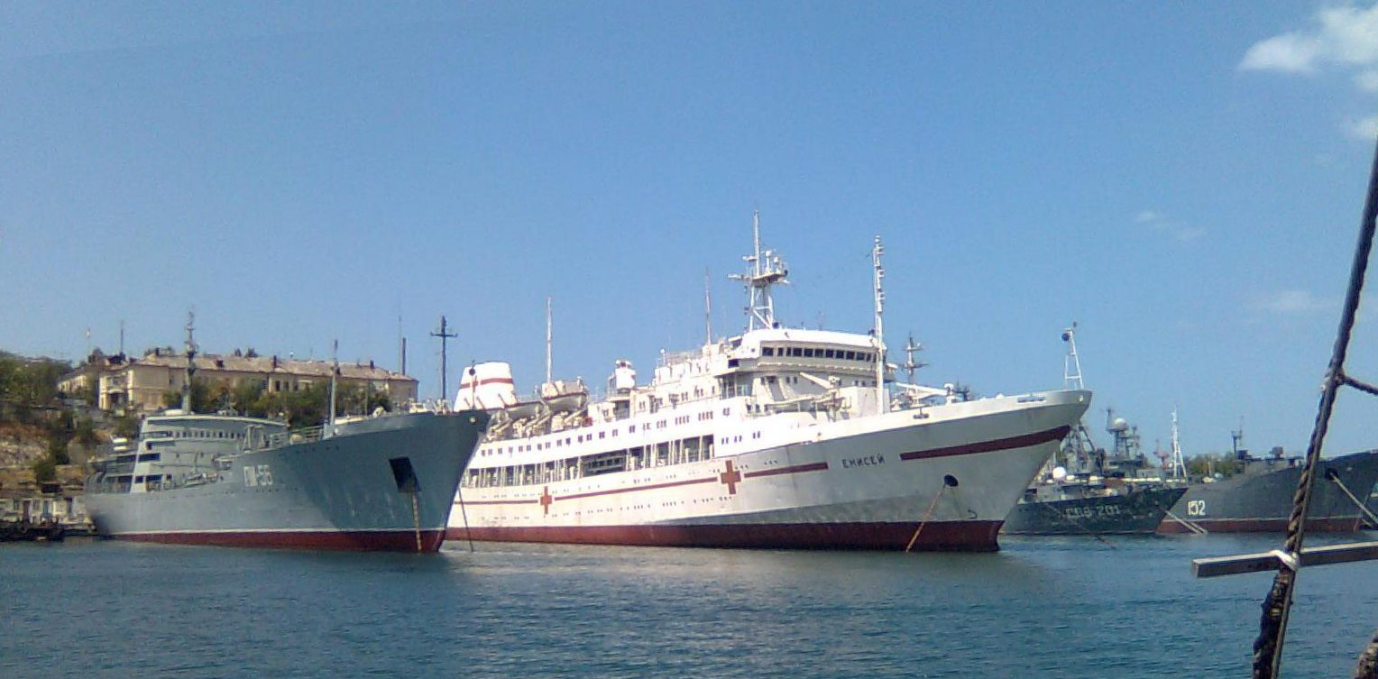 Hospital ship Yenisey. The Black Sea, Sevastopol Bay, Ukraine